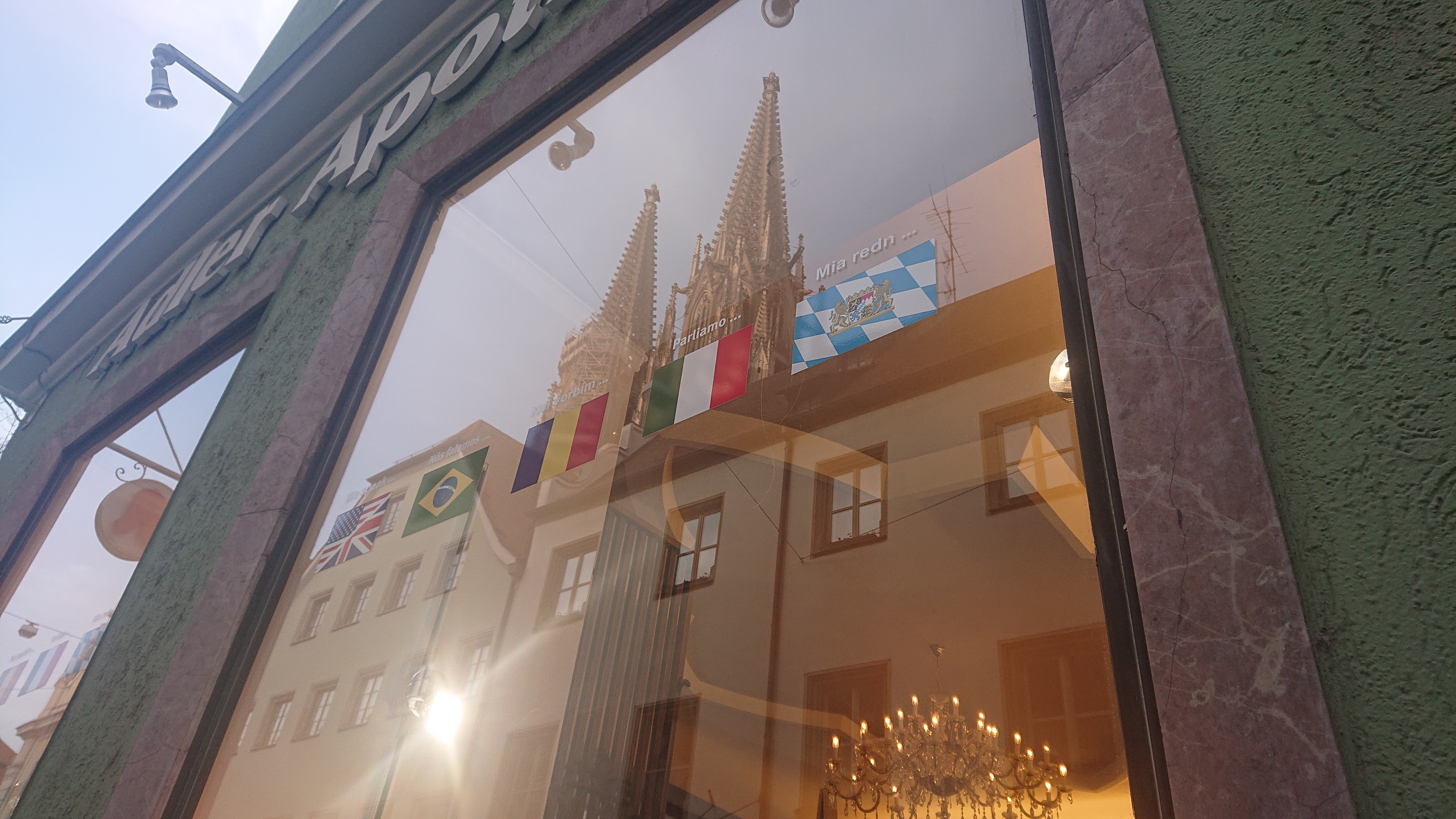 A shop-window of a pharmacy in the town of Regensburg in Bavaria, Germany, informing (potential) customers about the languages (or dialects) spoken by its personnel.